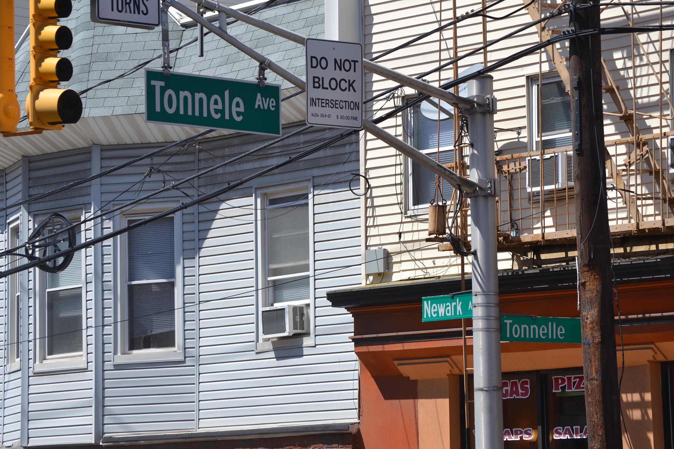 Intersection of Newark Avenue and Tonnele/Tonnelle Avenue showing confusion over spelling of the latter. Two different spellings on two signs at the same intersection.